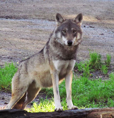 A wolf in Ähtäri Zoo, Finland